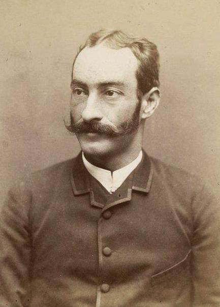 Roberto Ivens' portrait